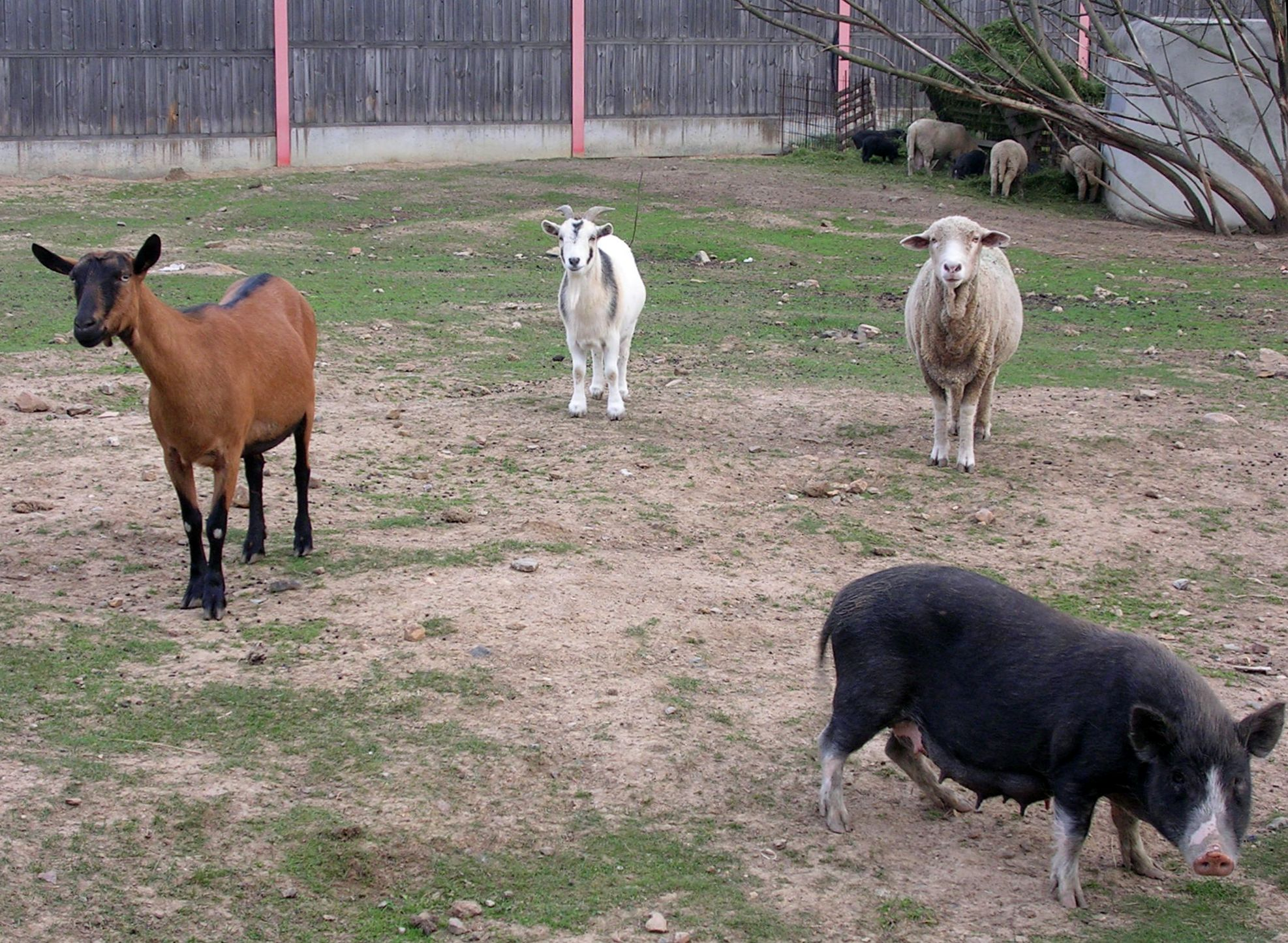 Chlustina, Beroun District, Central Bohemian Region, the Czech Republic. A farm. - Google Maps - Google Earth